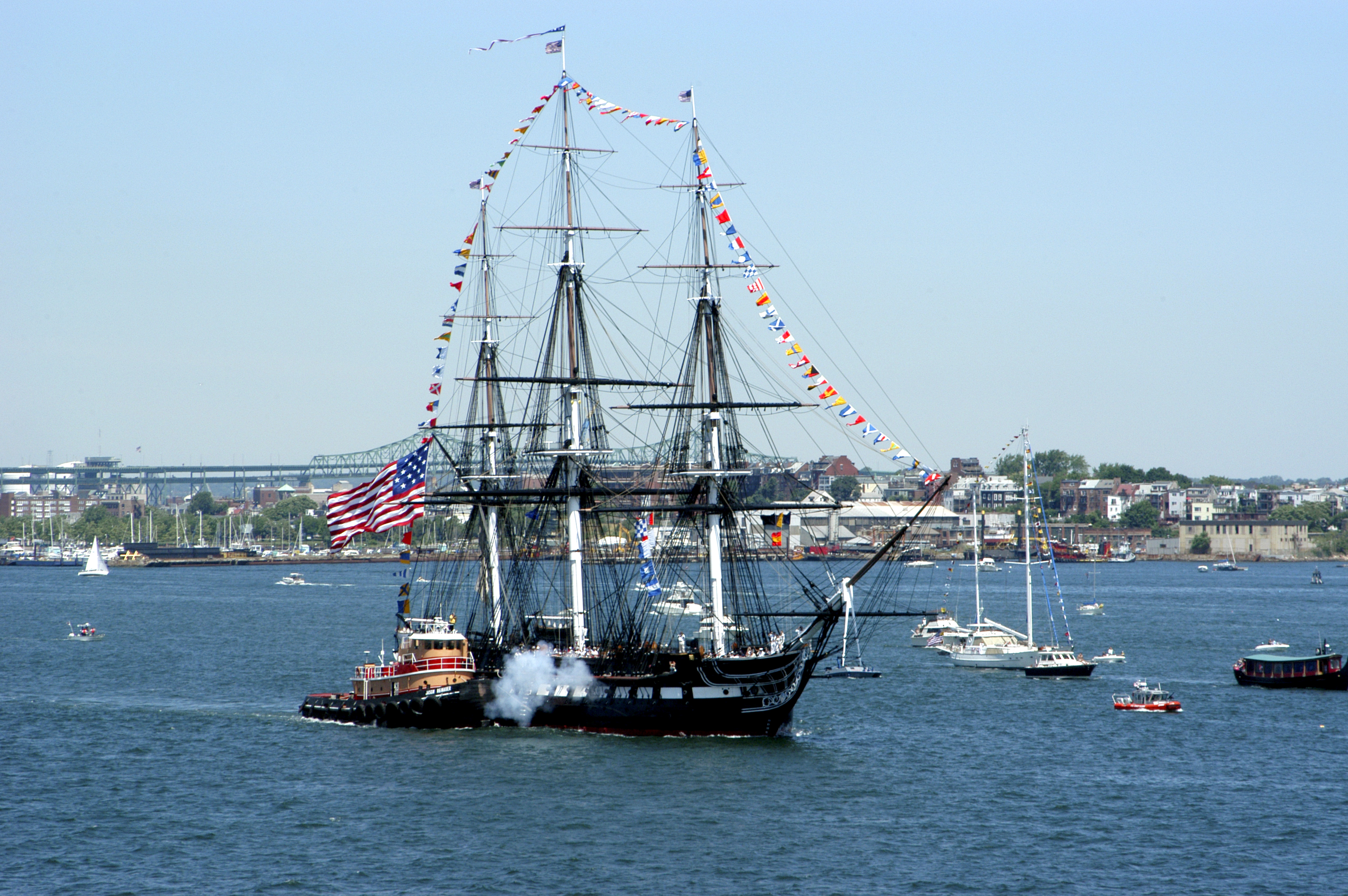 050704-N-4008C-002 Boston, Mass. (July 4, 2005) - The Navy's oldest commissioned vessel, USS Constitution, fires its cannon in salute to the amphibious assault ship USS Bataan (LHD 5) during Constitution's annual Independence Day turn-around cruise in Boston Harbor. Every year the crew of Constitution gets underway on July 4th in order to allow the ship to weather evenly on both sides. U.S. Navy photo by Photographer’s Mate 2nd Class Jonathan Carmichael (RELEASED)